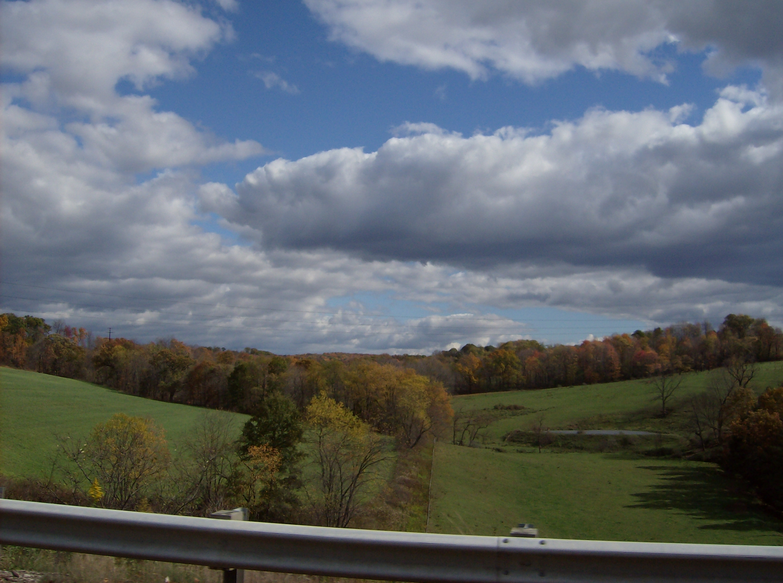 Woods and fields in South Buffalo Township, Armstrong County, Pennsylvania, United States. Picture taken looking southeastward from Pennsylvania Route 28.